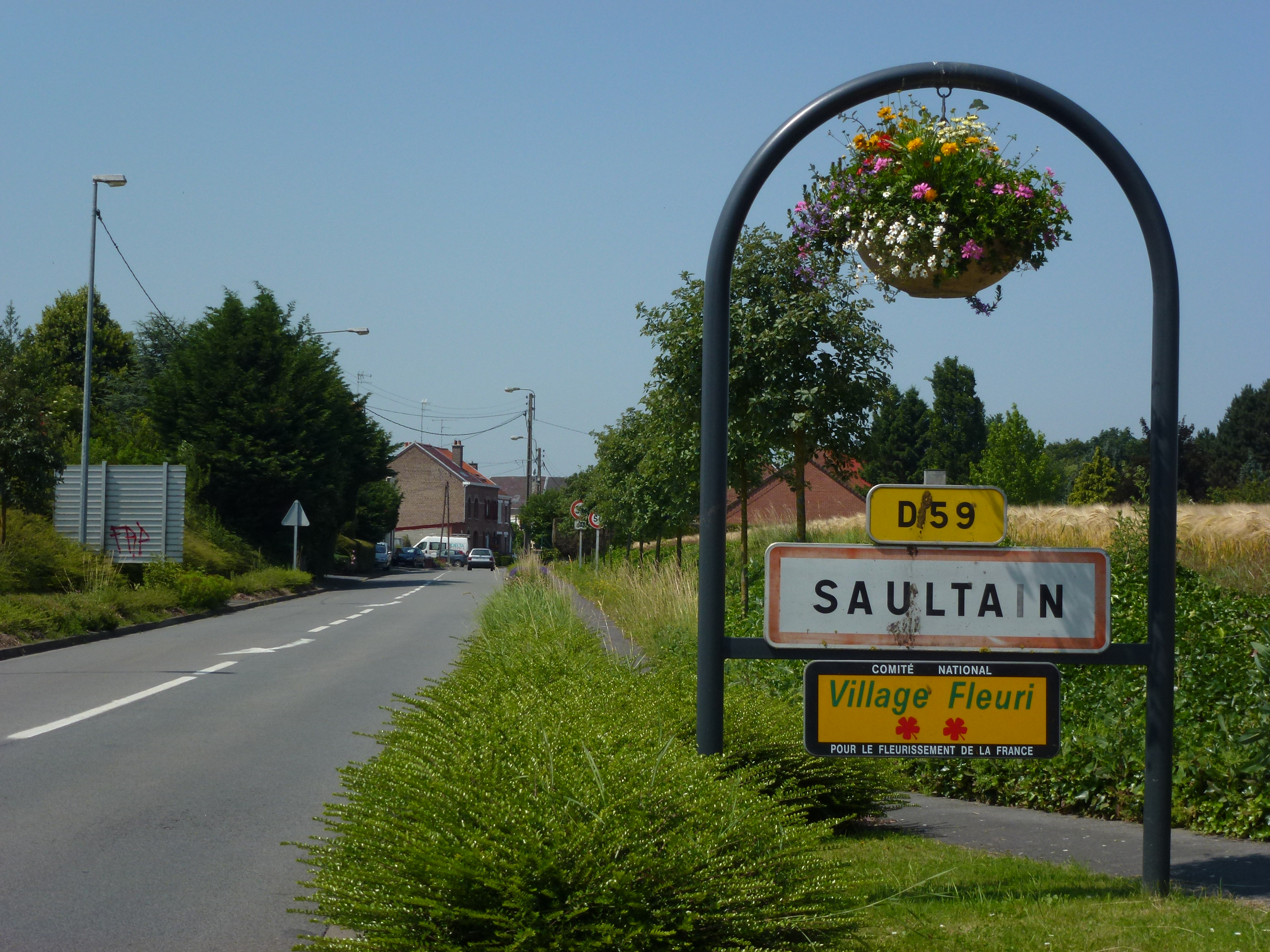 Saultain (Nord, Fr) city limit sign